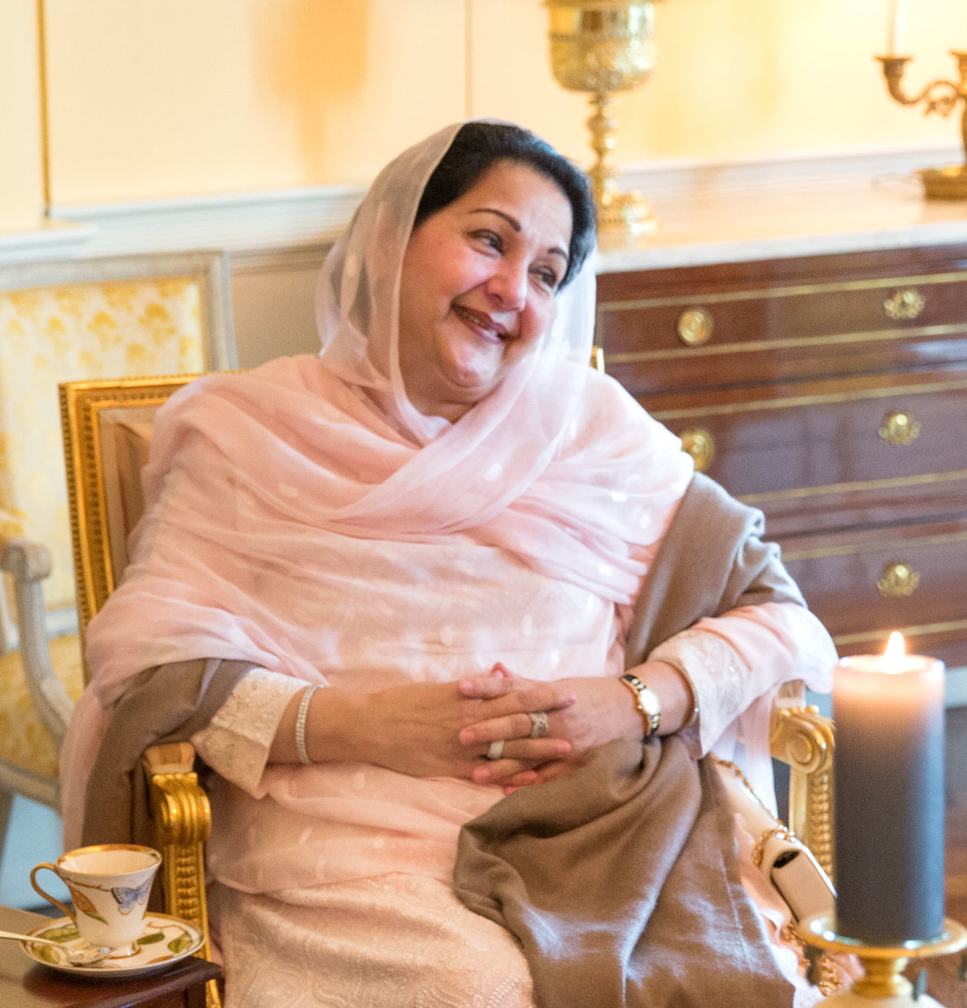 First Lady Michelle Obama and Dr. Jill Biden host a spousal tea in honor of Kalsoom Nawaz Sharif in the Yellow Oval Room of the White House, Oct. 23, 2013. Official White House Photo by Amanda Lucidon